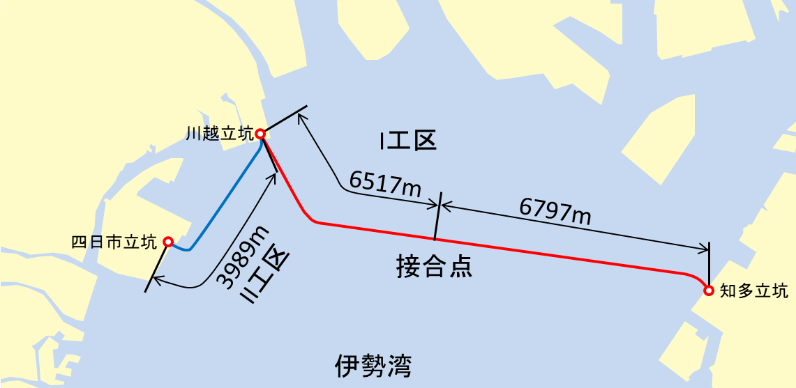 Abstract positioning of "Trans Ise bay gas pipeline". The pipeline was built jointly by Chubu Electric Power co. and Toho Gas co. and carries natural gas.